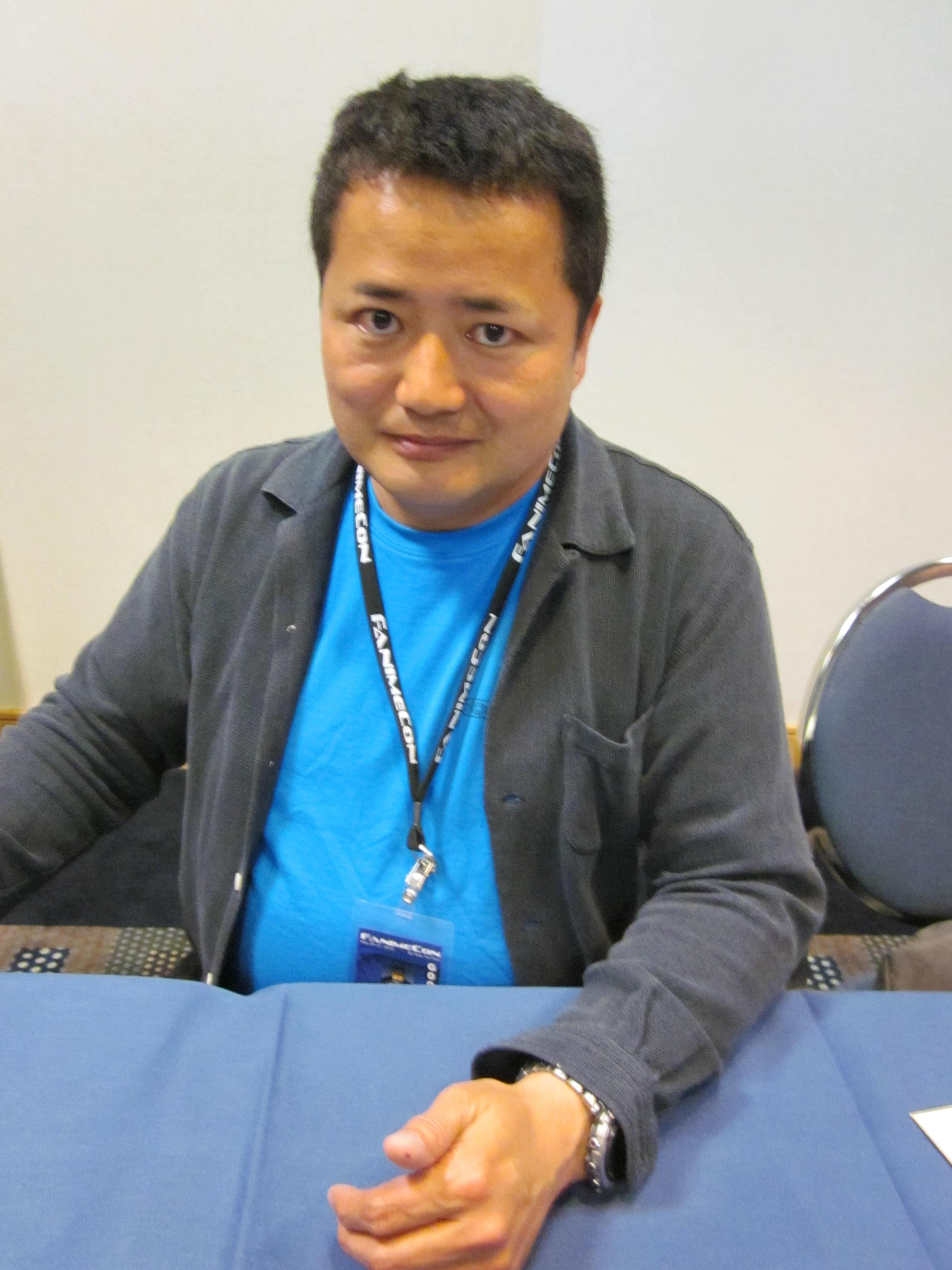 Gainax executive director Hiroyuki Yamaga at FanimeCon in San Jose, California.